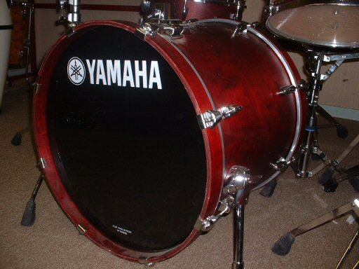 Yamaha bass drum, as a part of a drum kit.